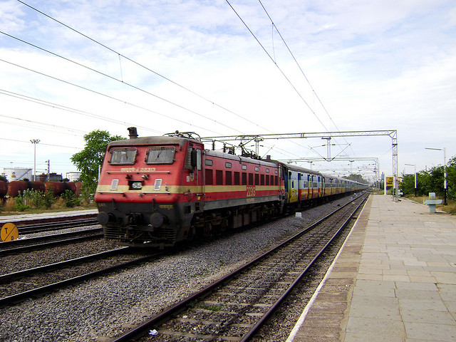 Telangana exp with WAP4 loco at Cherlapally, Hyderabad